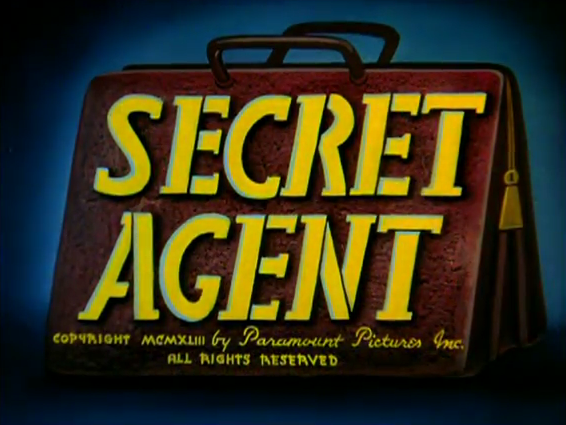 Title screen of the animated short "Secret Agent".